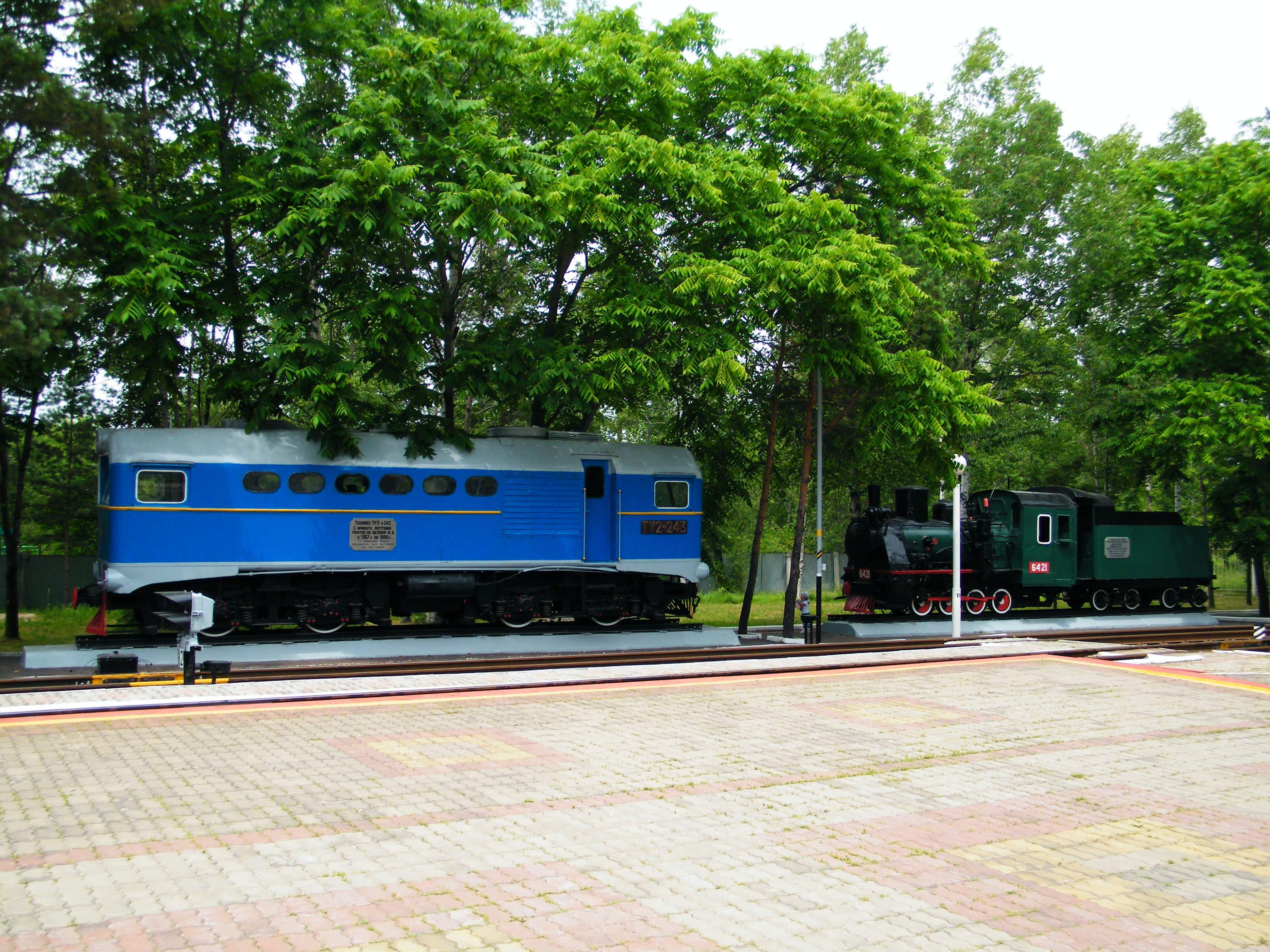 Malaya Dalnevostochnaya, Khabarovsk